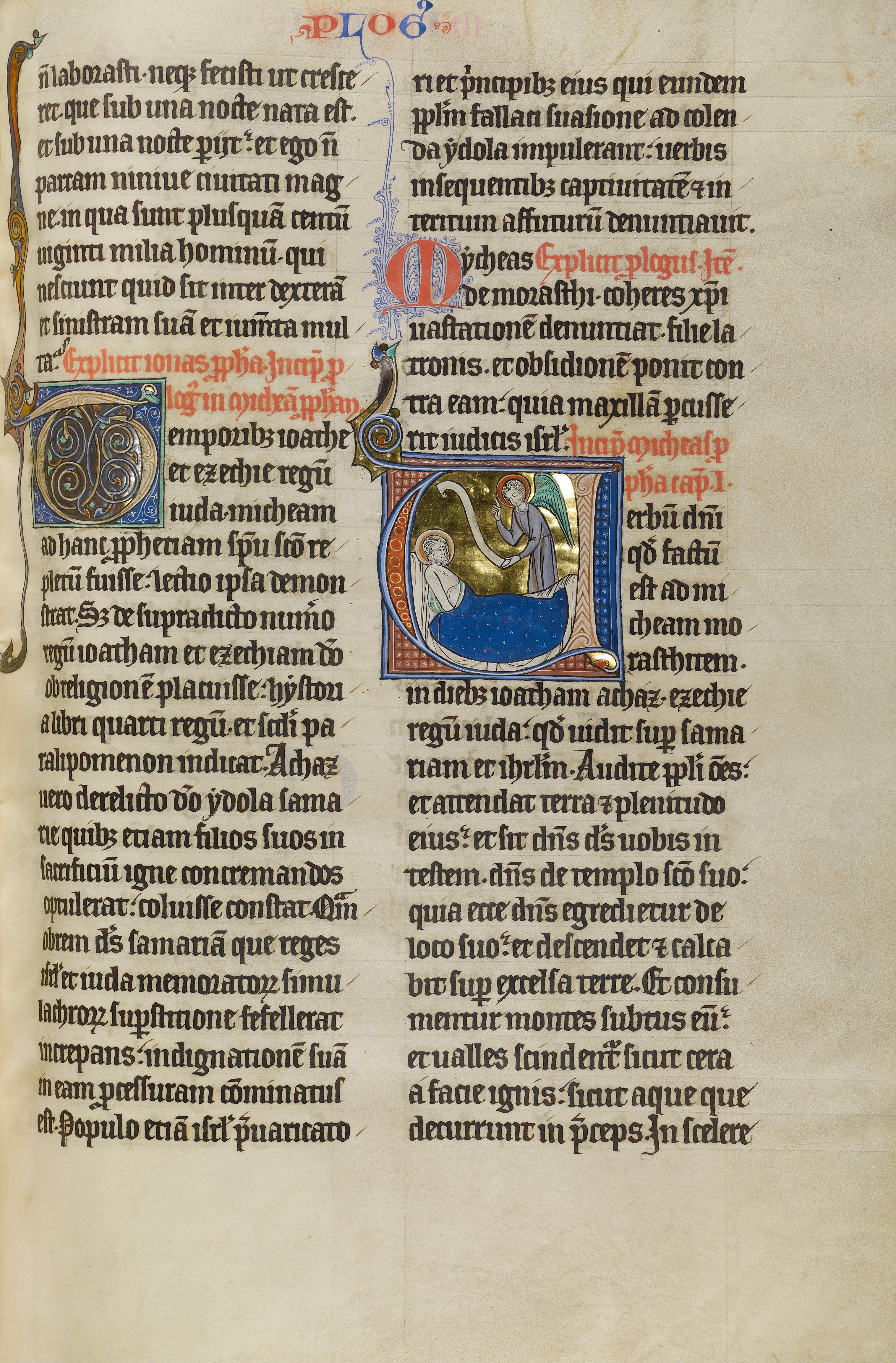 In this Bible from the 1200s, an initial V introduces the Old Testament book of Micah. The scene inside the letter illustrates the following text: "The word of the Lord that came to Micah the Morasthite . . ." The illuminator added details not mentioned in the text to his representation of the scene, showing the prophet Micah in bed while an angel, its hand raised in a gesture of speech, delivers the "word of the Lord" represented by a scroll. Although he appears in bed, it is clear that Micah is not dreaming; his eyes are open and he glances toward the angel at the side of the bed.